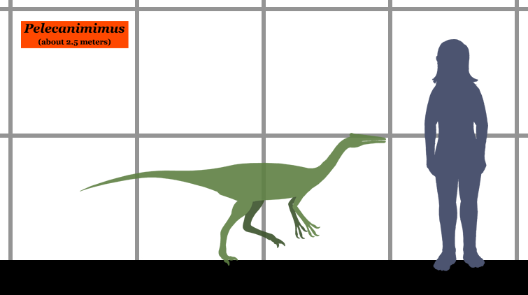 Size comparison between Pelecanimimus (Sauropsida, Dinosauria, Saurichia, Theropoda, Tetanurae, Coelurosauria, Ornithomimosauria) and a human.